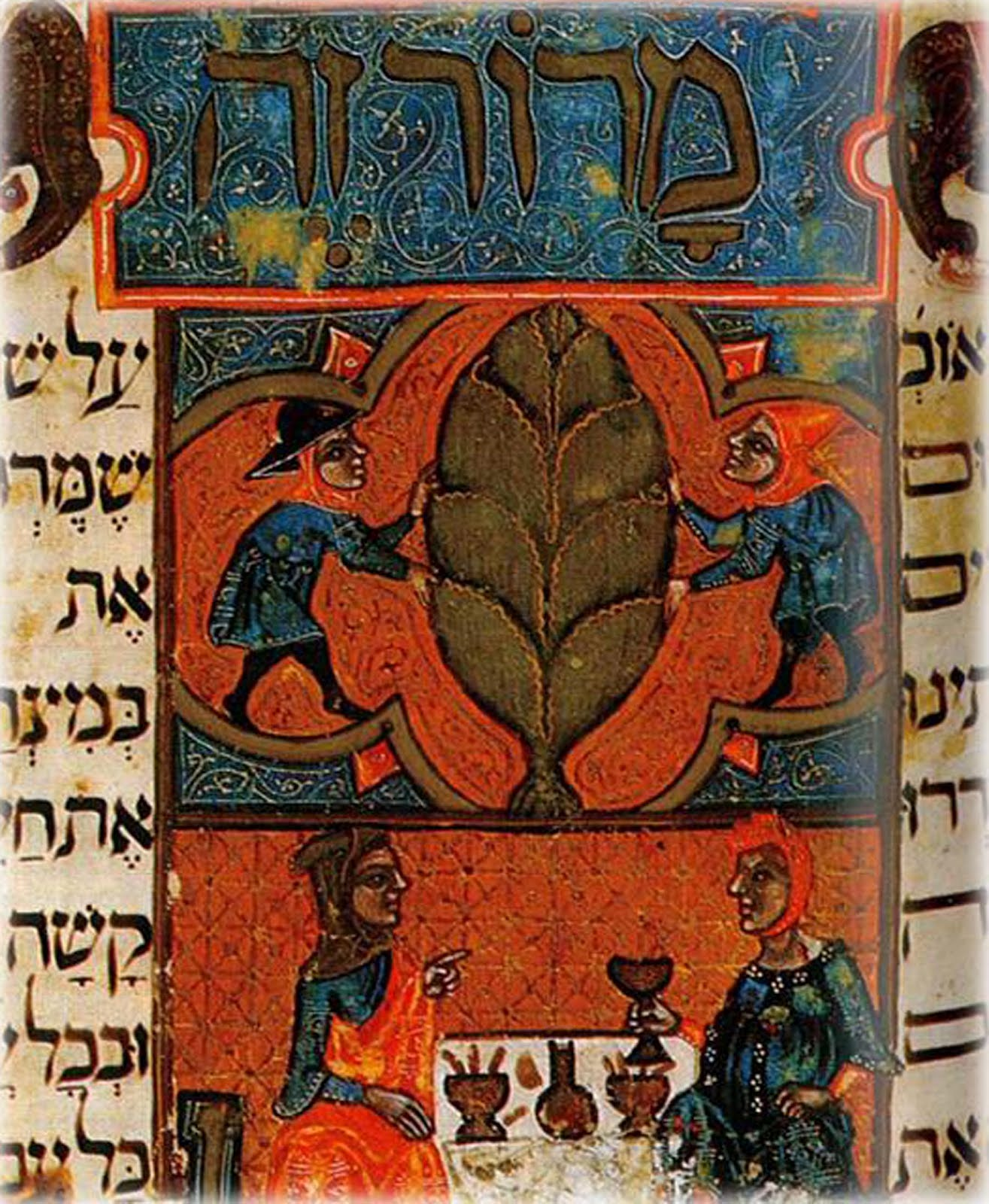 In the Brother to the Rylands Haggadah, marror is depicted as an artichoke.